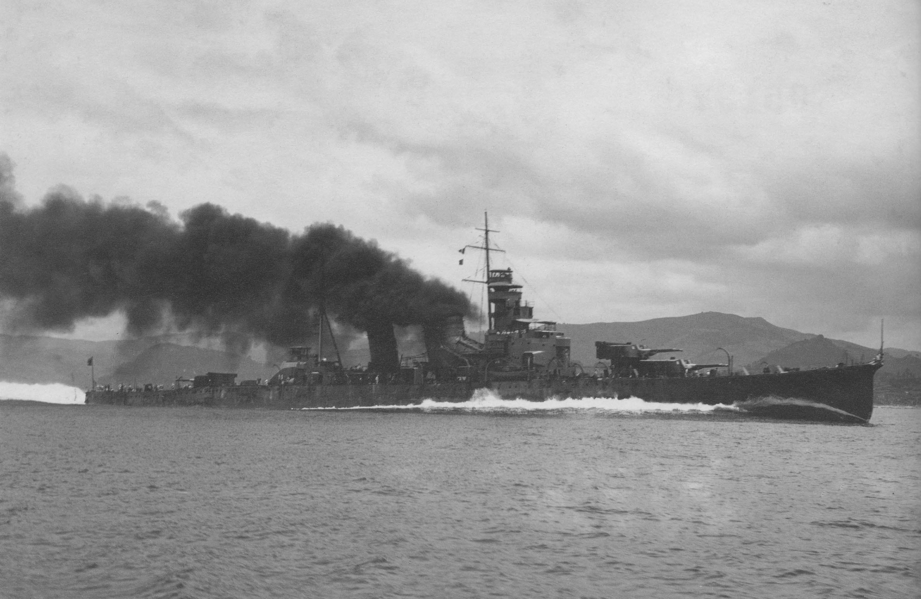 Imperial Japanese Navy heavy cruiser Aoba undergoing sea trials on July 23, 1927.